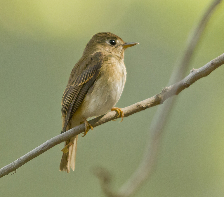 adult